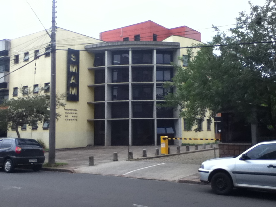 The building of "Secretaria Municipal do Meio Ambiente" (The Municipal Secretary of Environment), in Porto Alegre, Brazil.